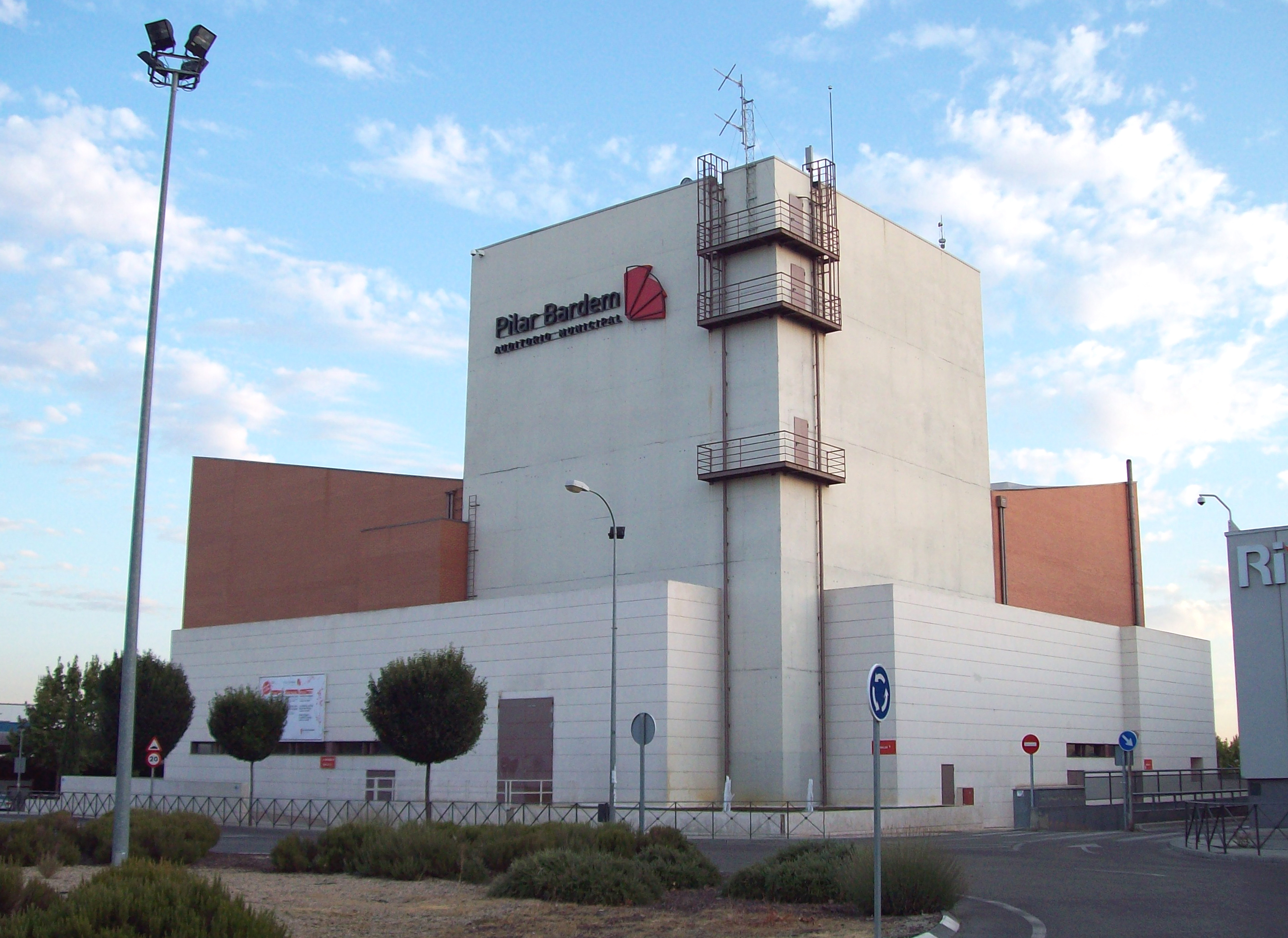 Façade of Pilar Bardem Auditorium in Rivas-Vaciamadrid (Community of Madrid, Spain).